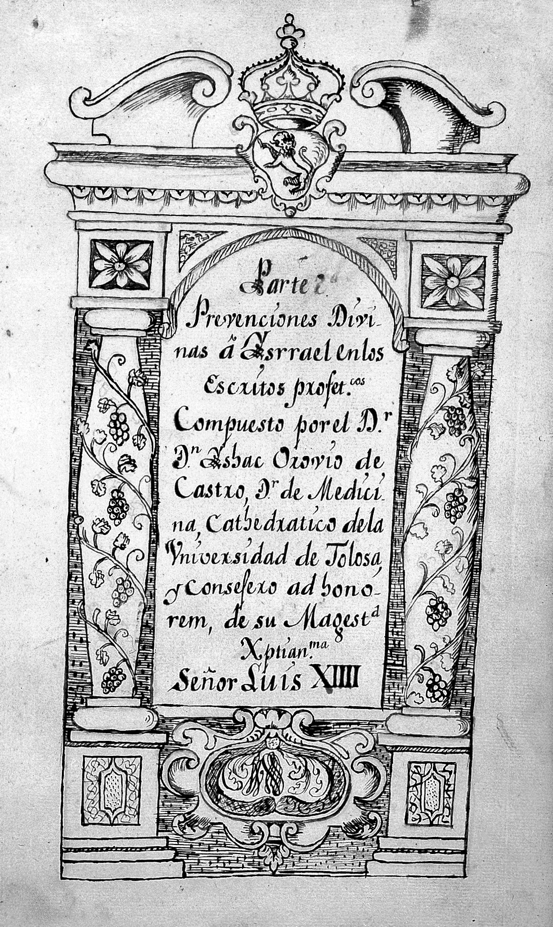 Western Manuscript 3722 Orobio de Castro (Baltasar or Isaac), 1620?-1687. Parte 2a. Prevenciones divinas a Israel en los escritos profeticos. Late 17th century. Titlepage. Archives & Manuscripts Keywords: wms 3722; orobio de castro